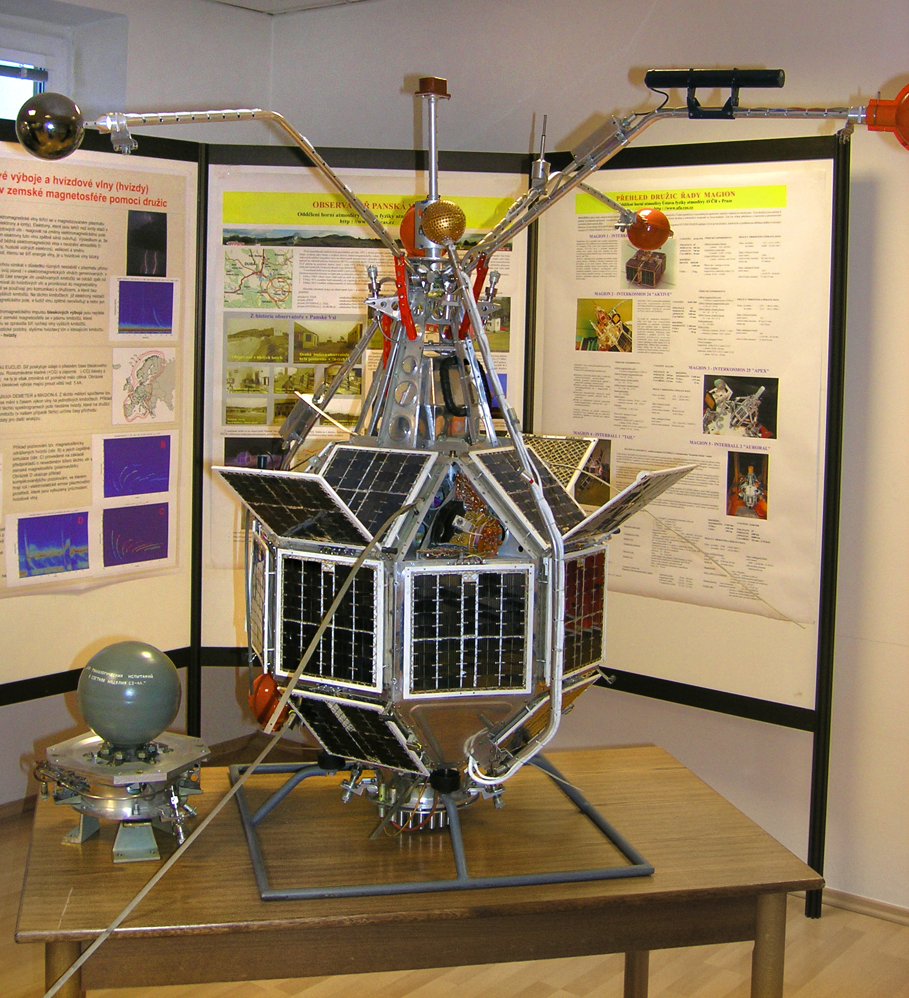 Magion satellite in Institute of Atmospheric Physics AS CR in Prague, Czech Republic